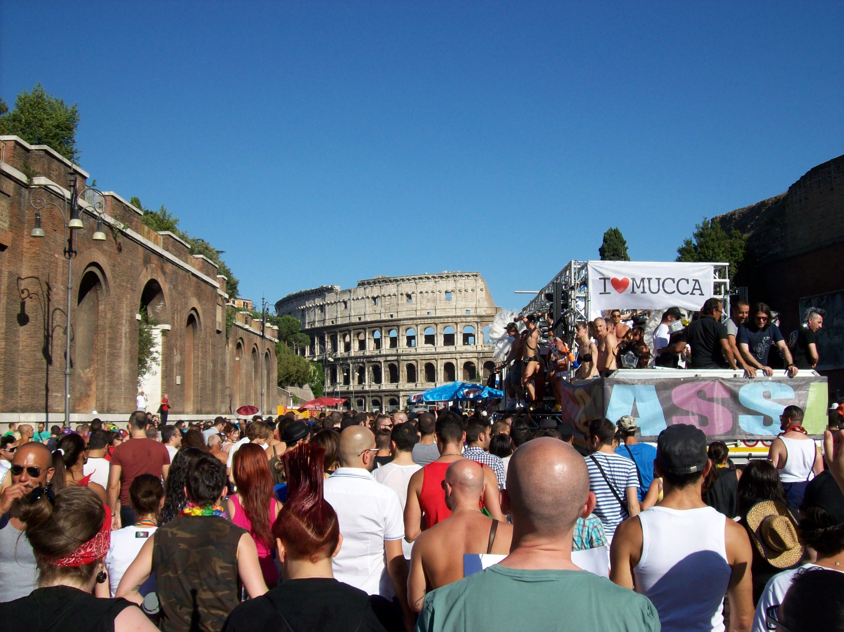 The 2012 Gay Pride arrives at Colosseum